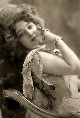 Polish-born stage actress Anna Held, who performed on Broadway